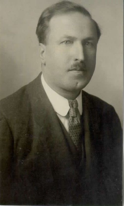 Matej Šmalc (1888-1960)